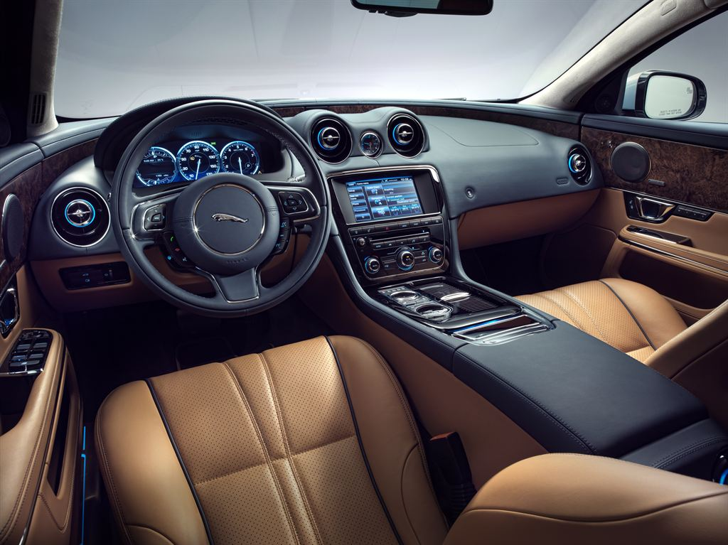 Enhanced luxury features in the rear cabin of the 2014 Model Year XJ add to the already luxurious status of Jaguar’s flagship saloon